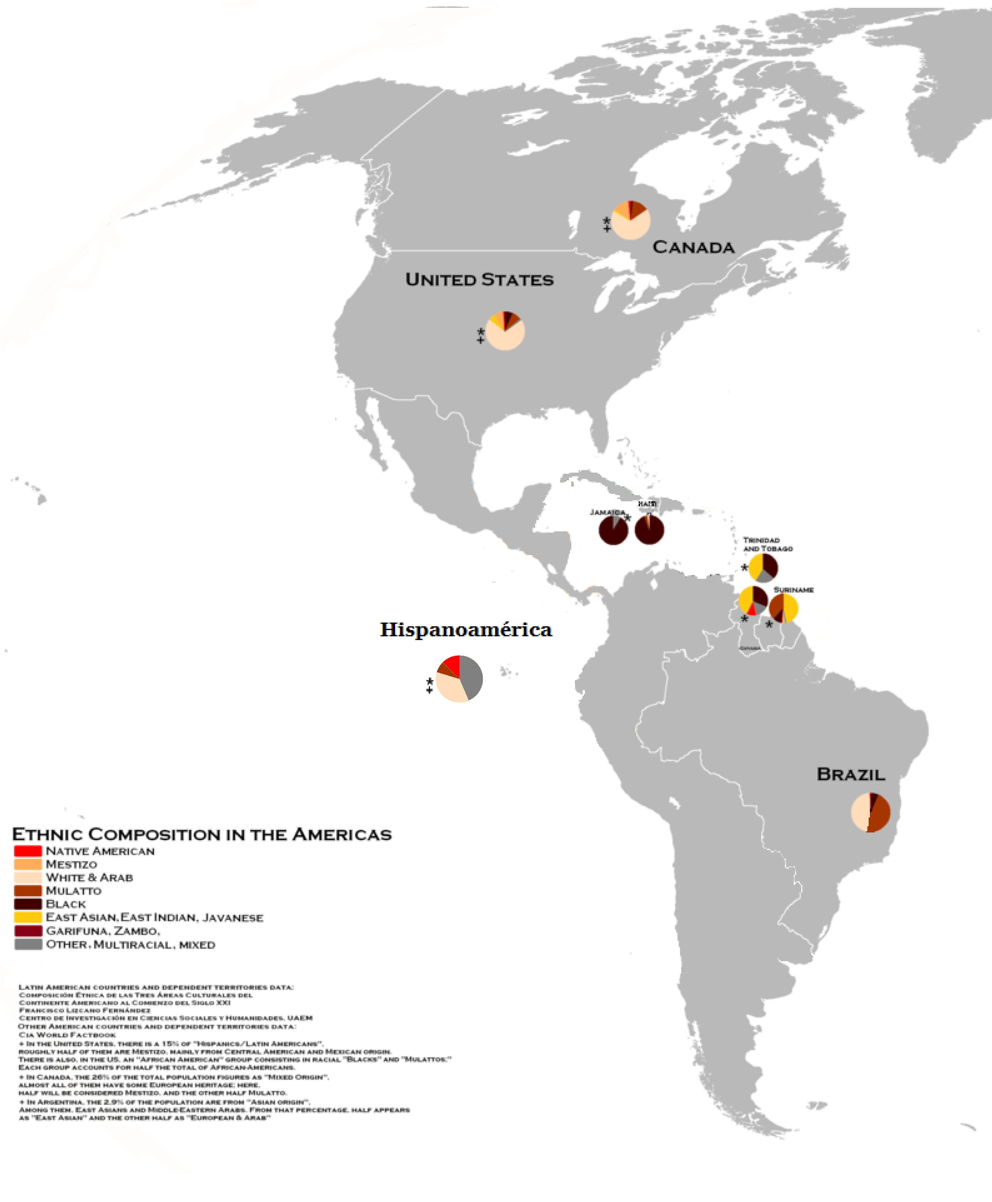 Etnografía